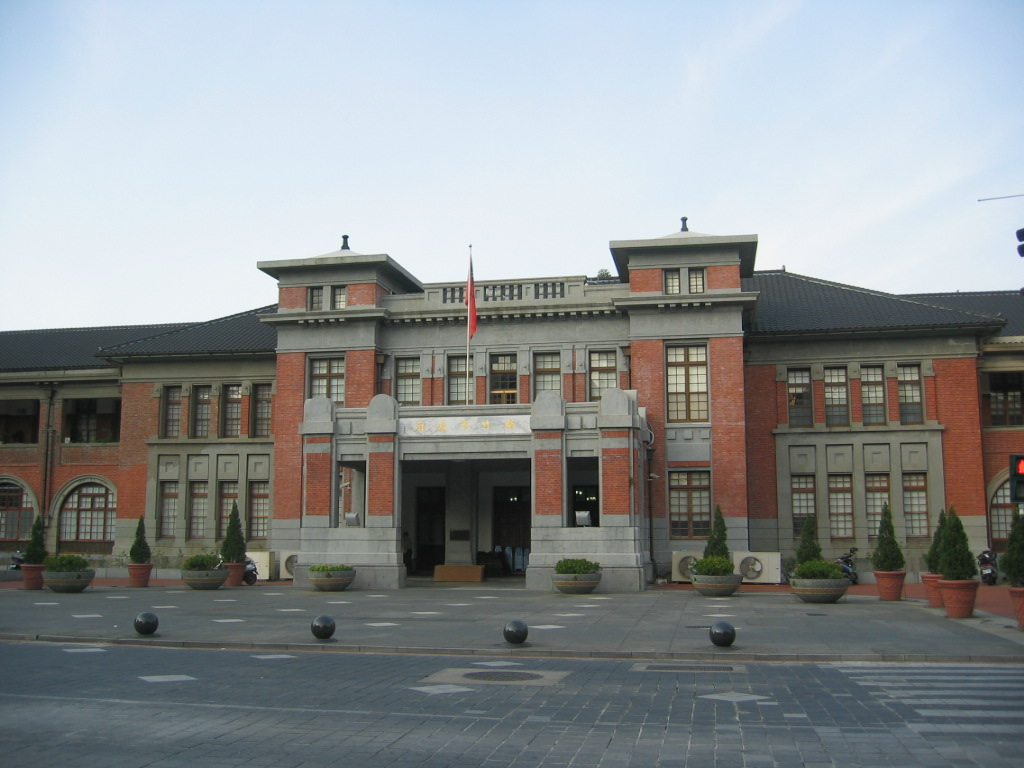 Hsinchu City Government Taken by mingwangx at July 22, 2006. 新竹市政府，mingwangx攝於2006年7月22日。